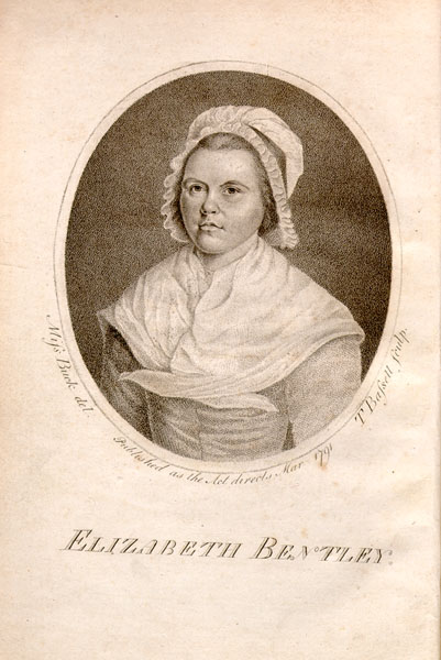 Portrait of Elizabeth Bentley (1767-1839). From a collection of her poems, Genuine Poetical Compositions, on Various Subjects (Norwich UK, published by subscription, 1791)